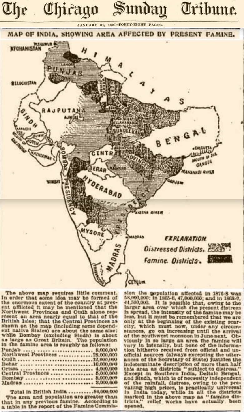 Map of the famine in India in 1897, published on page 10, of the Chicago Sundary Tribune, January 31, 1897